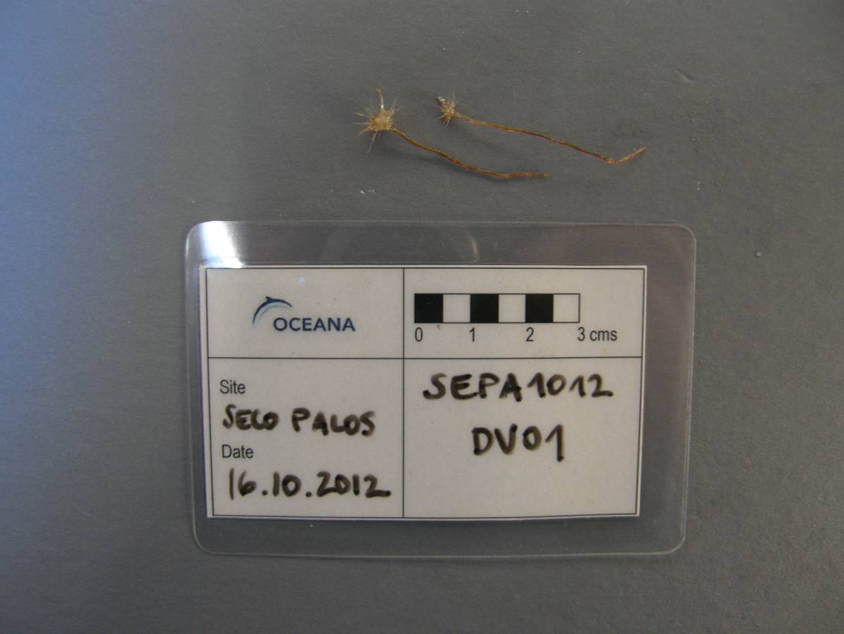 Giant foraminifera (Spiculosiphon oceana) a new specie found by Oceana. Seco de Palos, Murcia, Spain. Oceana Ranger 2012: Expedition to the deep-sea. September 2012.